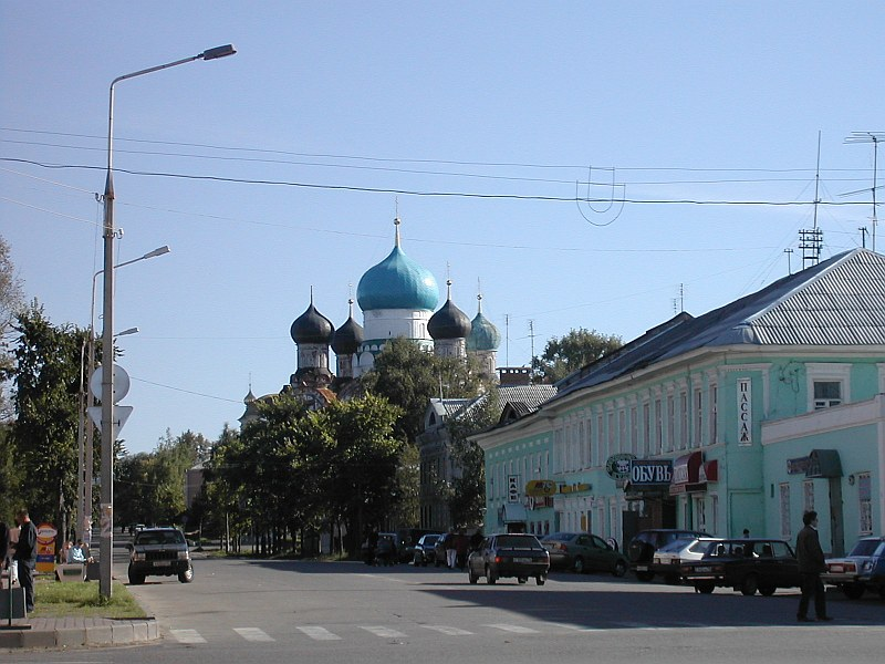 Bogoyavlensky Monastery (Uglich). Bogoyavlensky Cathedral